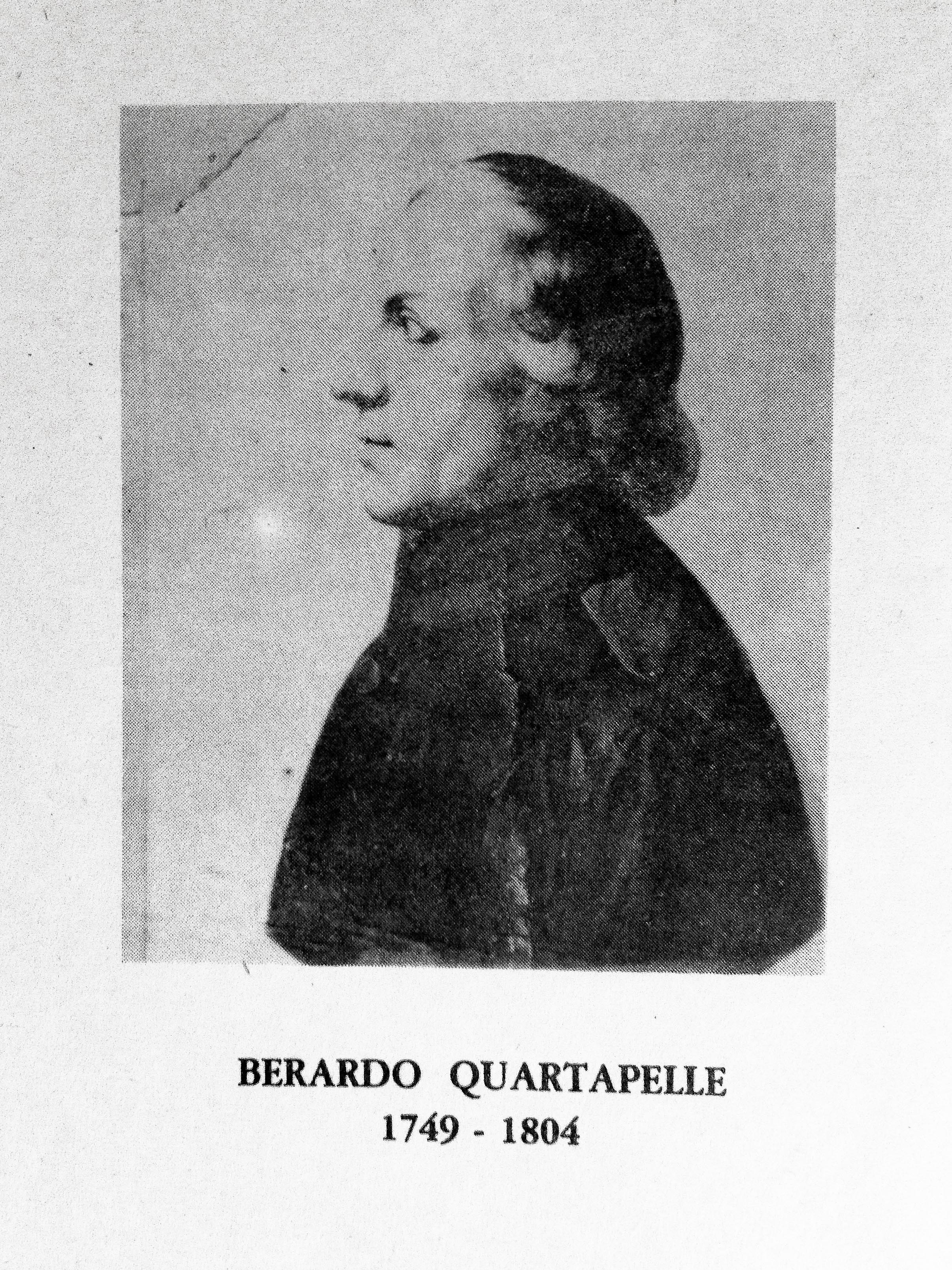 Berardo Quartapelle, Italian scientist and Agronomist.